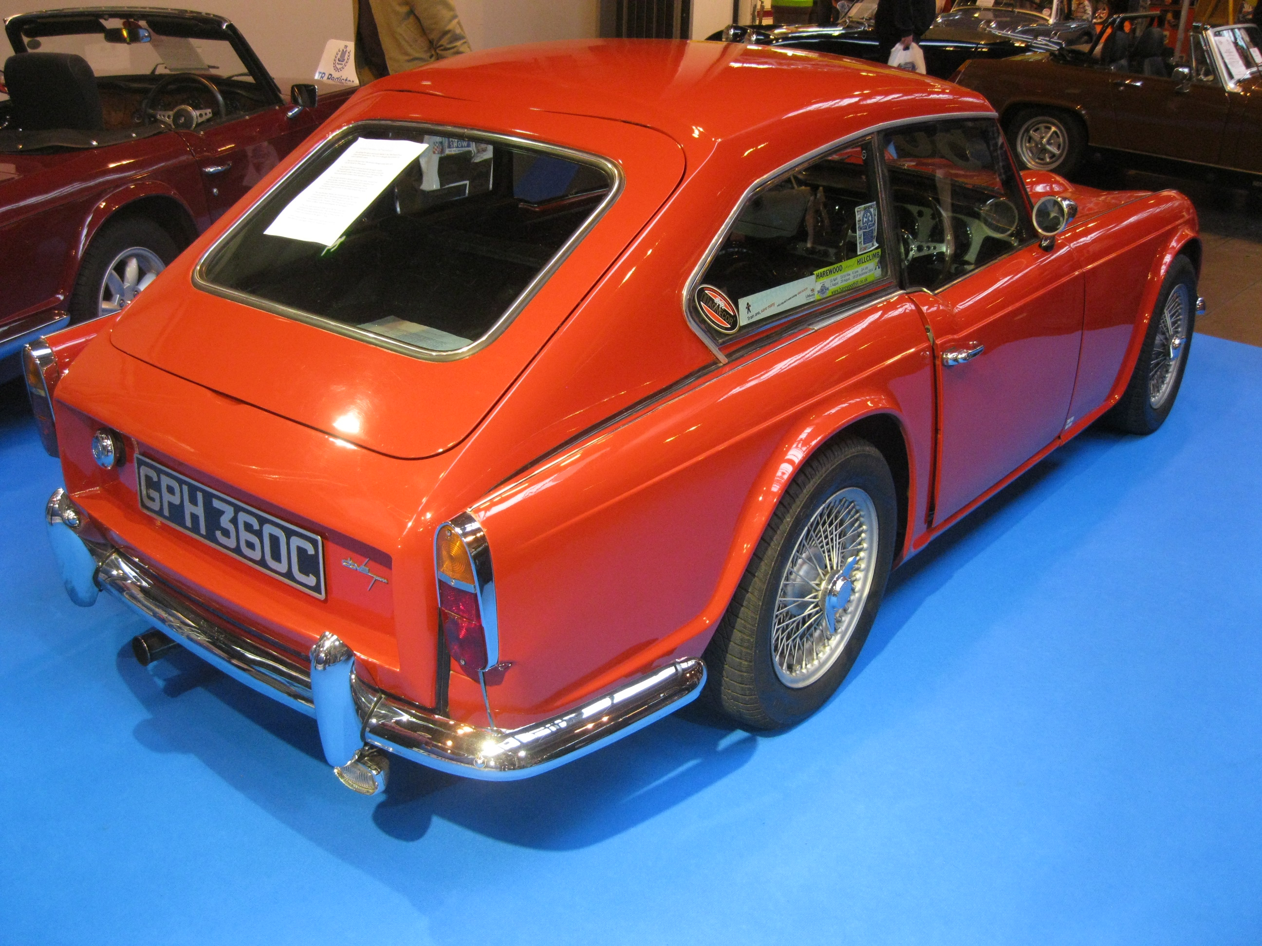 Exhibited at the NEC Birmingham Classic Car Show, 15-17 November 2013